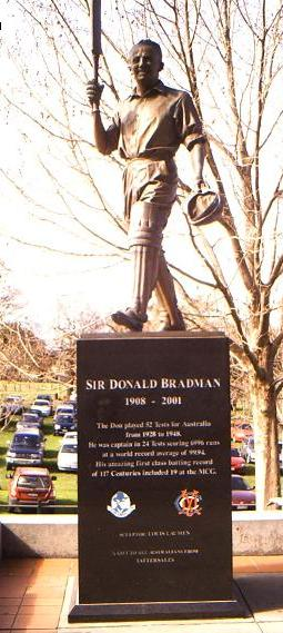 Photo of Don Bradman taken the MCG, Melbourne in August 2006. Taken by cls14.